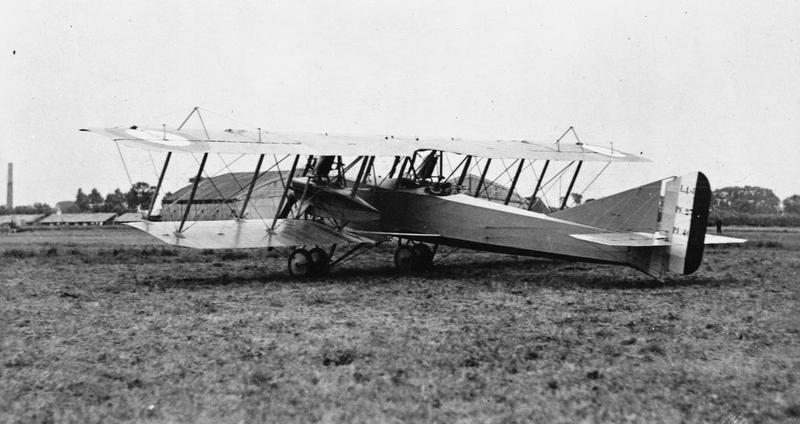 French Aircraft of the First World War Letord Let.1 three-seat bomber biplane.